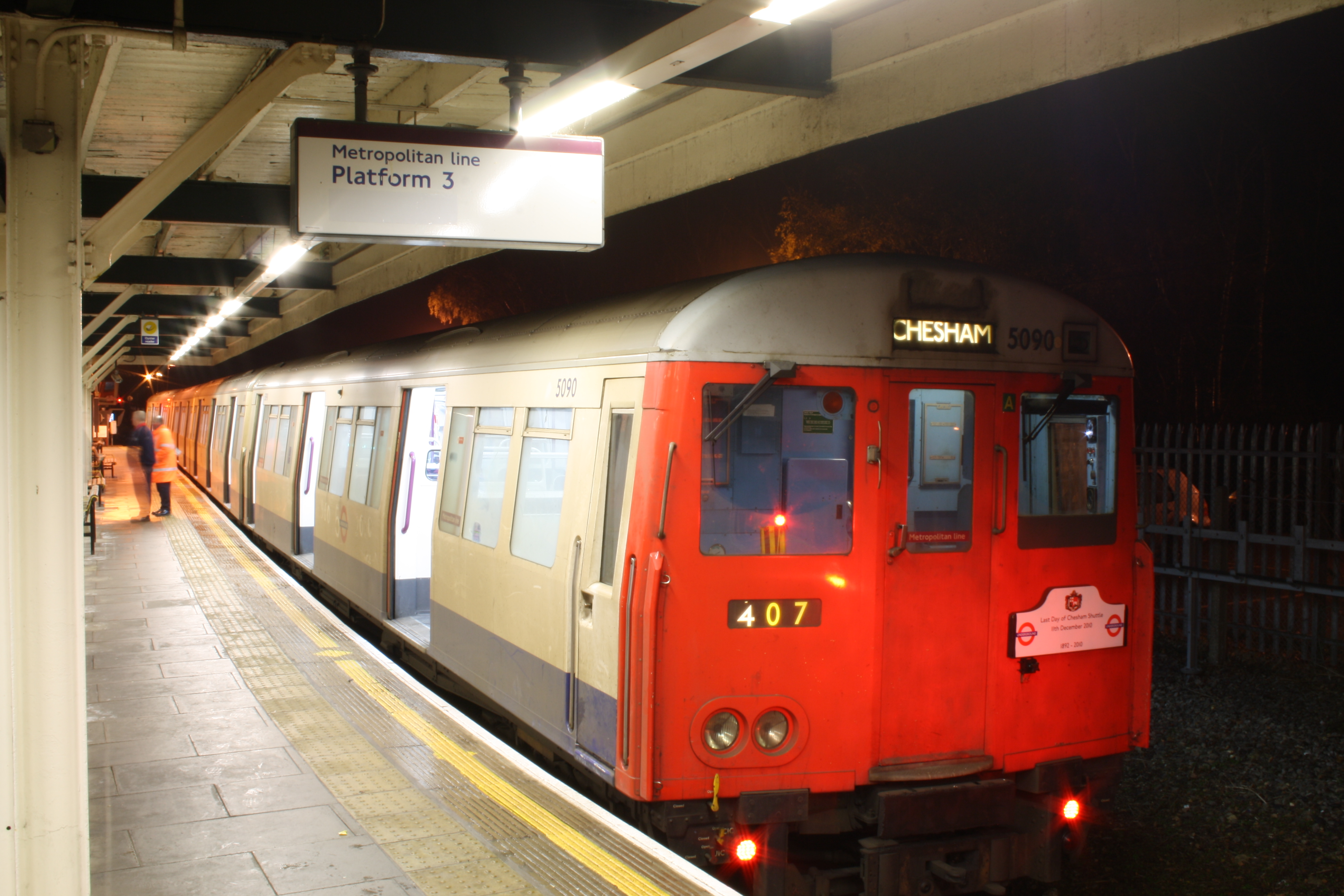 Metropolitan Line A Stock train at Chalfont & Latimer on the penultimate train to depart platform 3